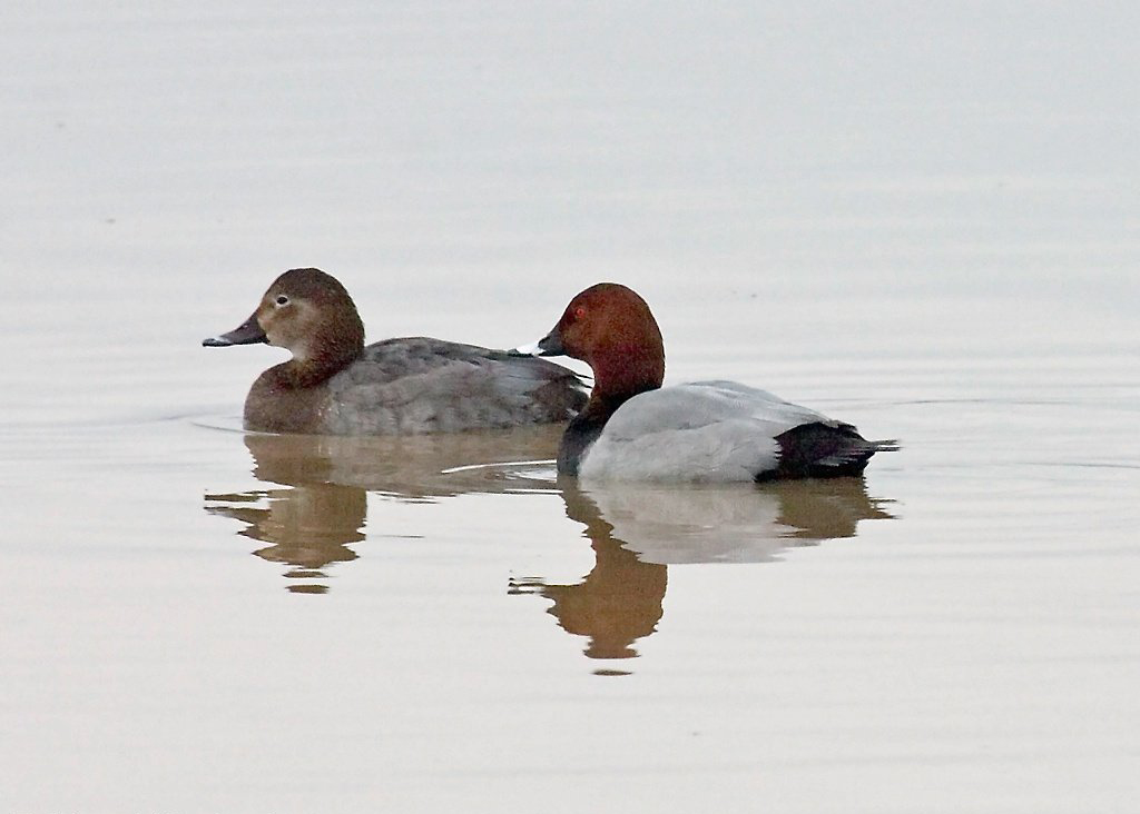 Common Pochard (Aythya ferina) pair